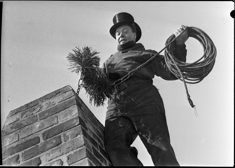 Chimney sweeper KB id: turck_58648 Photo: Sven Türck (1897-1954) Department of Maps, Prints and Photographs, Royal Danish Library.